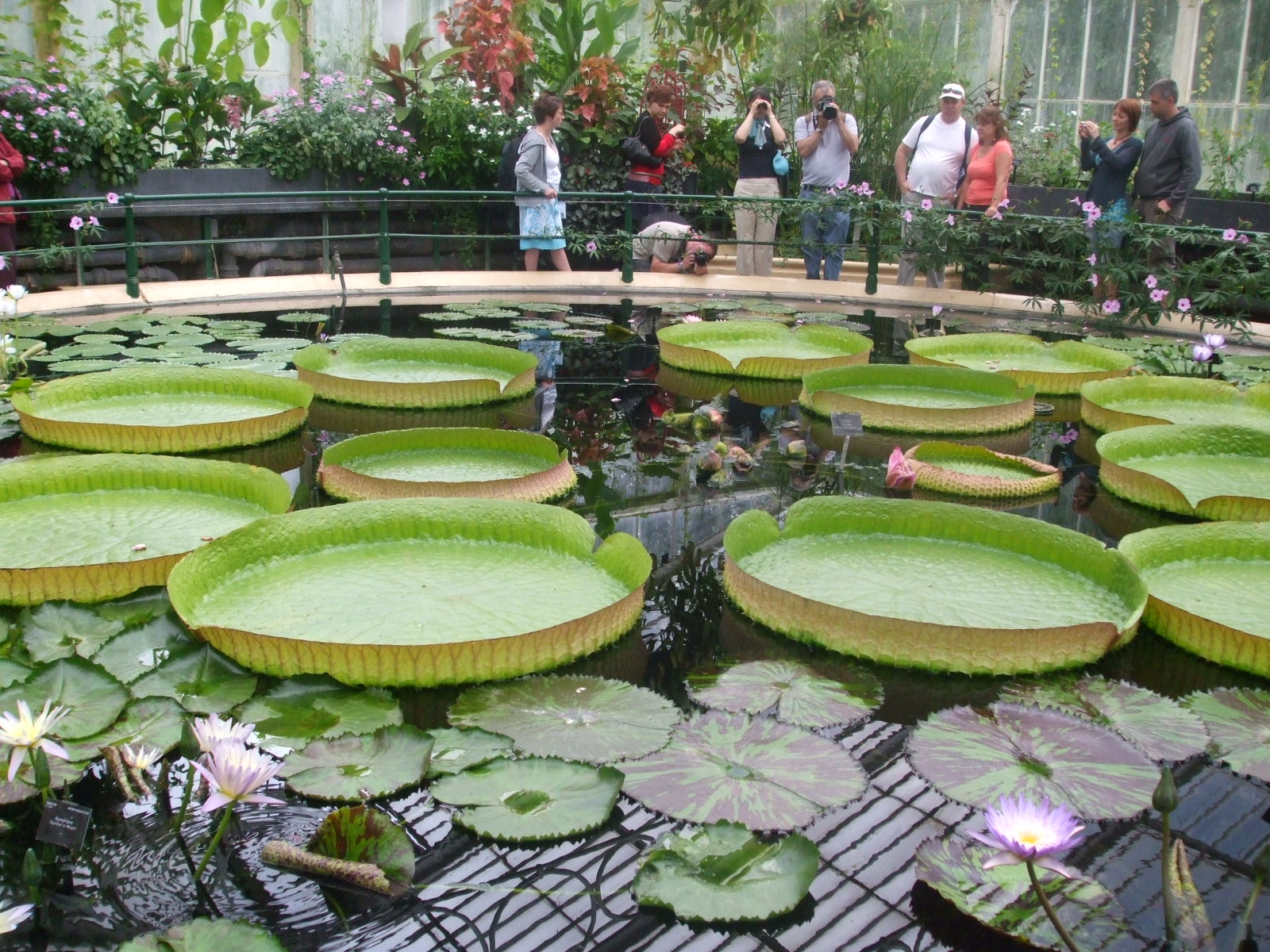 Kew Gardens giant water lily